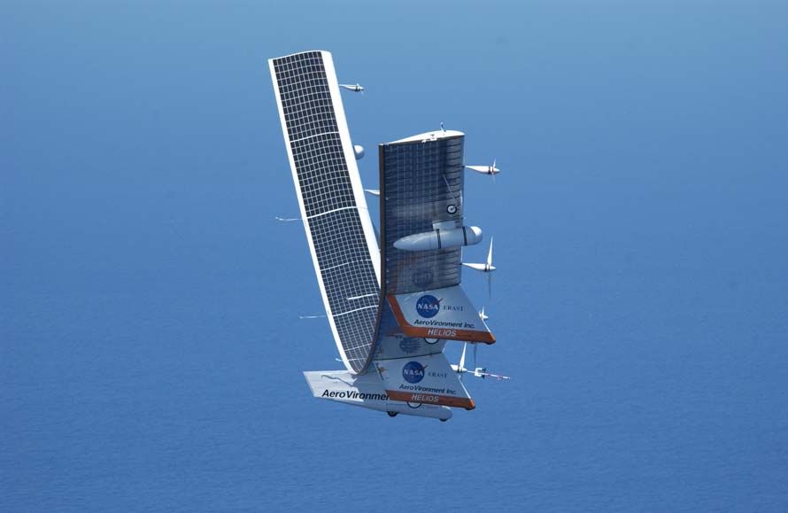 Helios Prototype with very high wing dihedral as a result of flight through turbulence, just before the aircraft broke up and crashed.